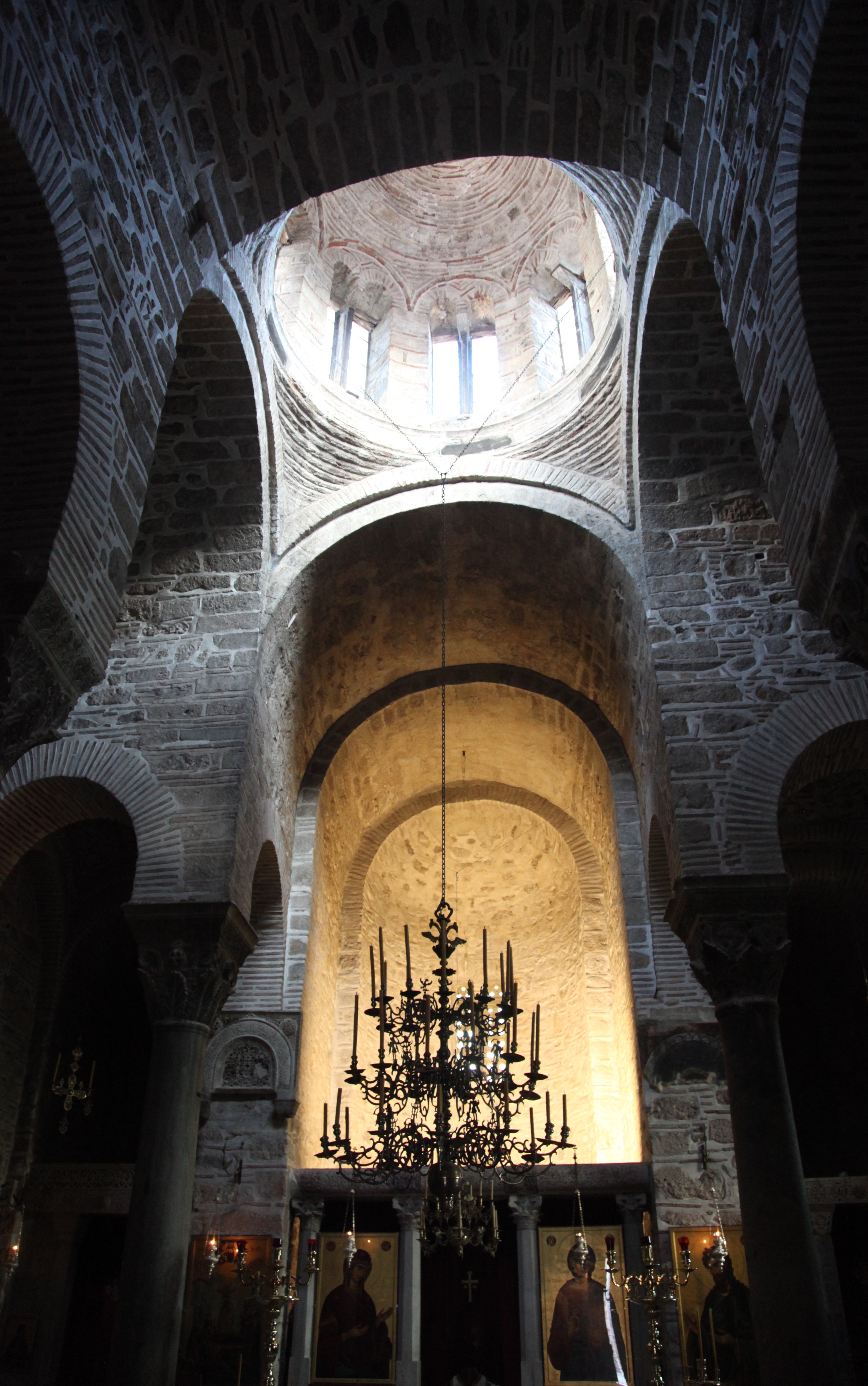 Monastery of Hosios Loukas - Google Maps - Google Earth